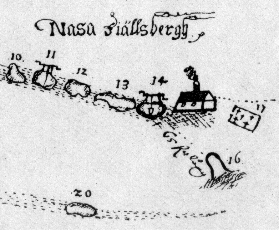 Detail of a map from 1646 of Nasafjäll silver mine.